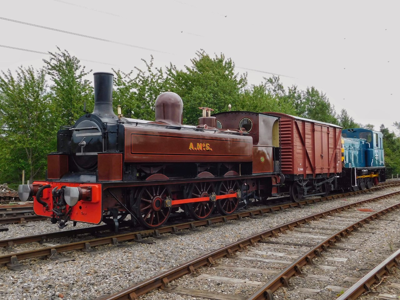 Kitson & Co 0-6-0T A-class being shunted by Class 03 0-6-0DM No.03078 at the North Tyneside Steam Railway